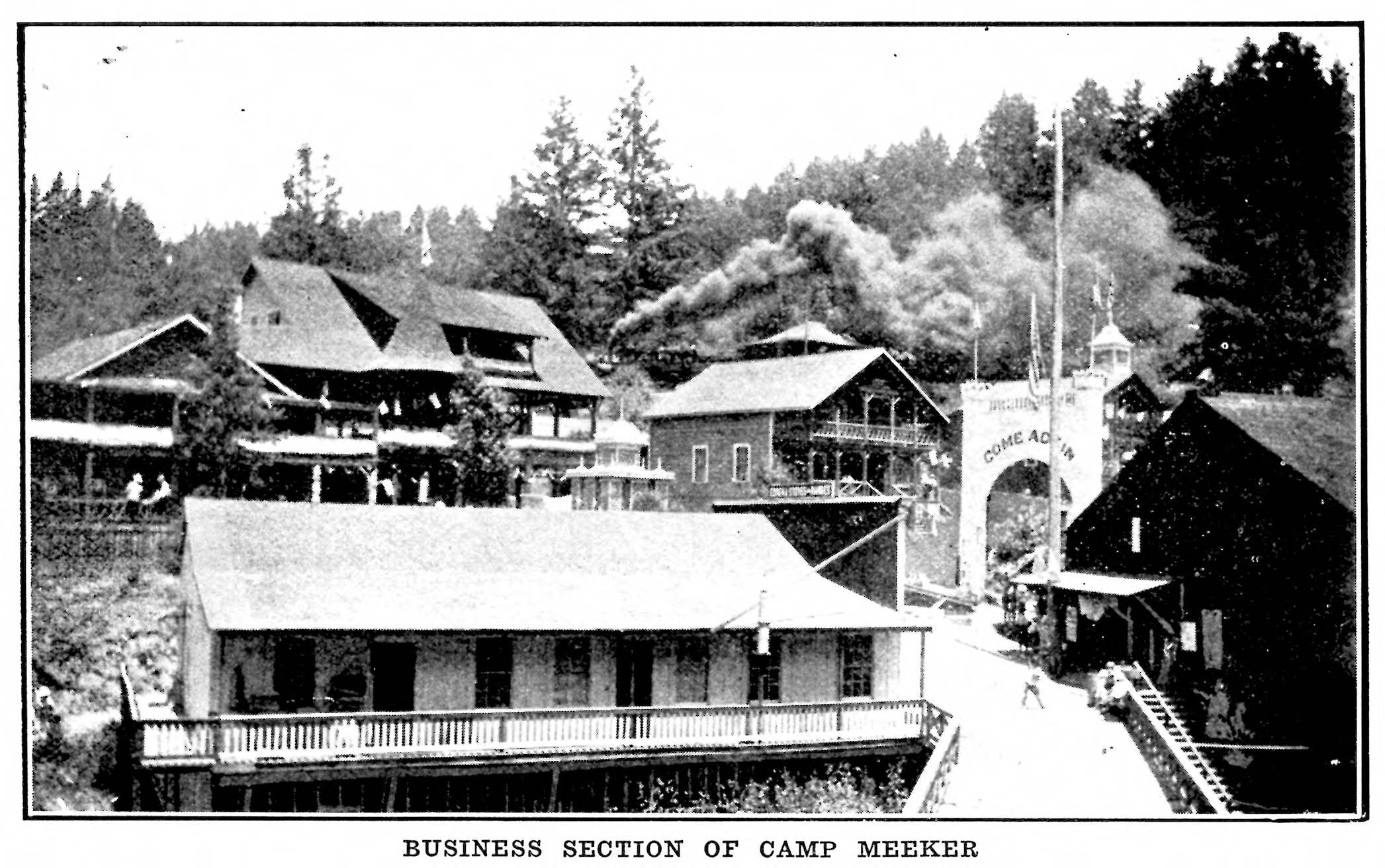 Business section of Camp Meeker, California.